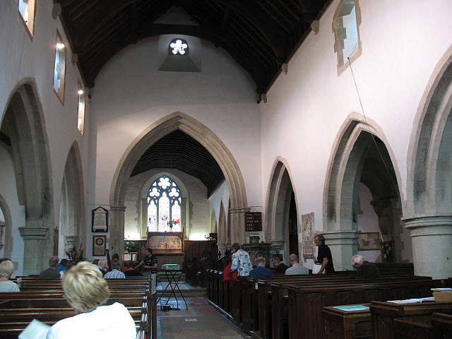 Interior of St Michael's church. The nave of 517235, looking east.